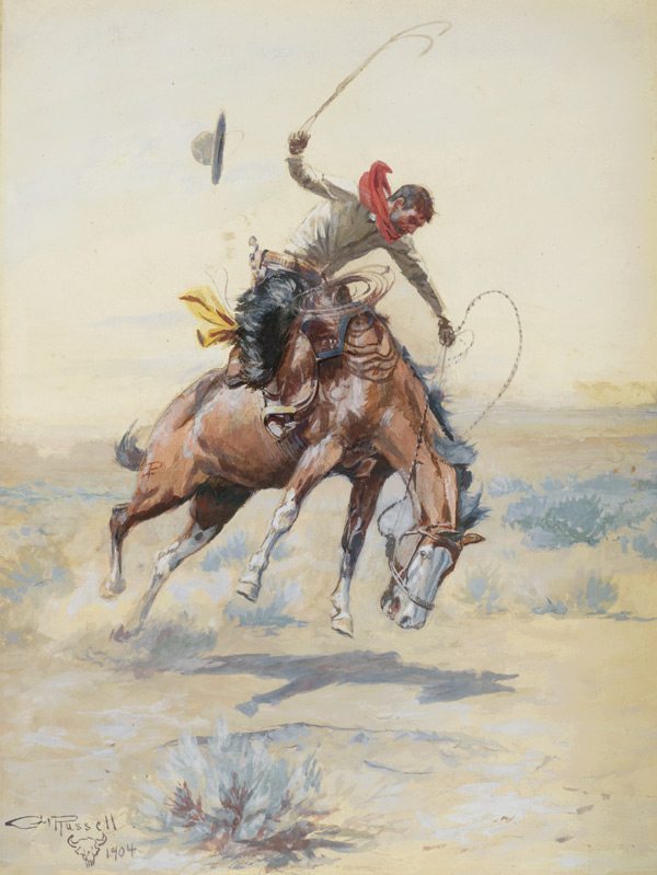 Charles Russell (1864-1926), The Bucker, 1904, Watercolor, pencil & gouache on paper, Sid Richardson Museum, Fort Worth, Texas (